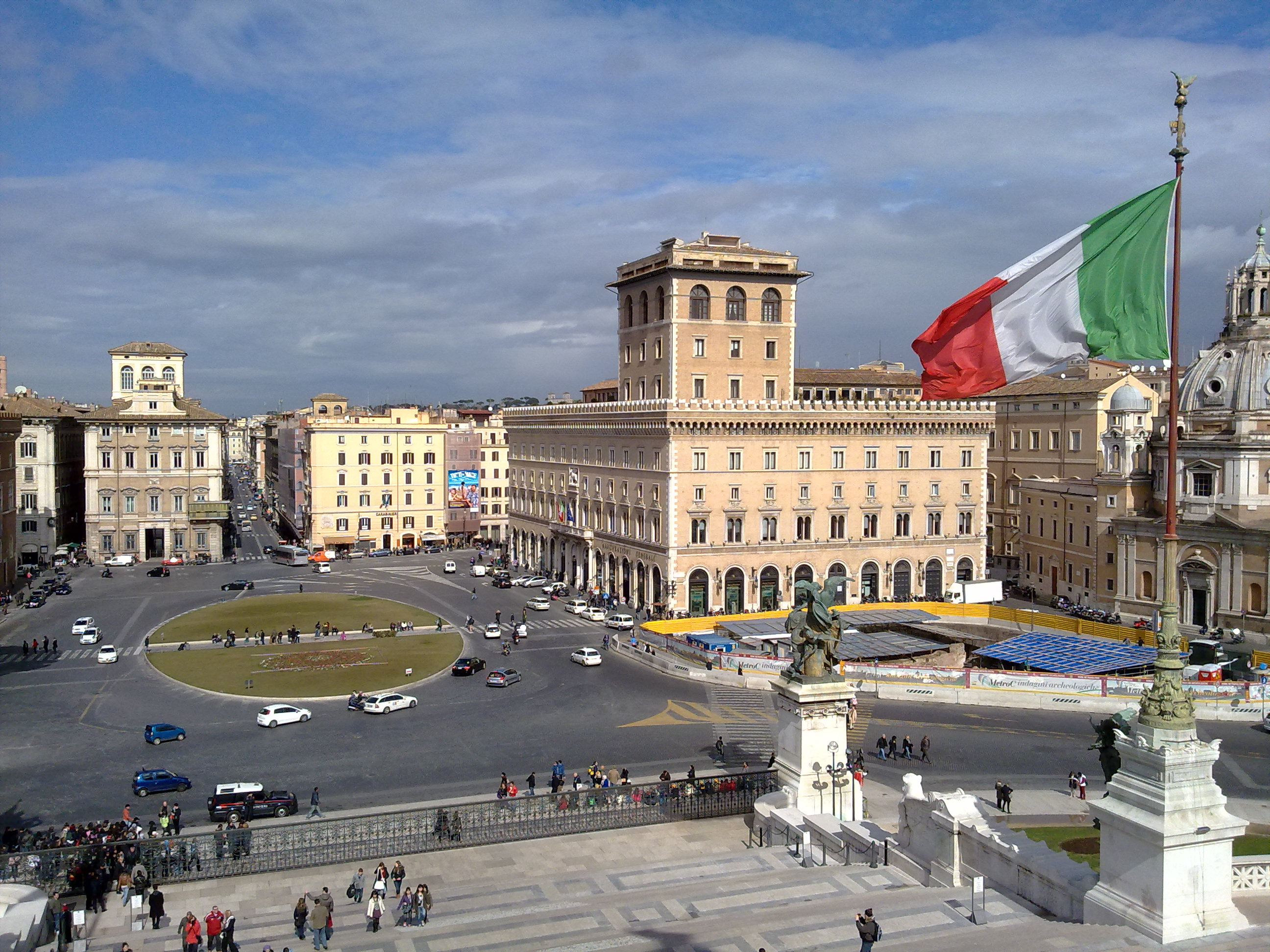 A view of Piazza Venezia in Rome from Vittoriano